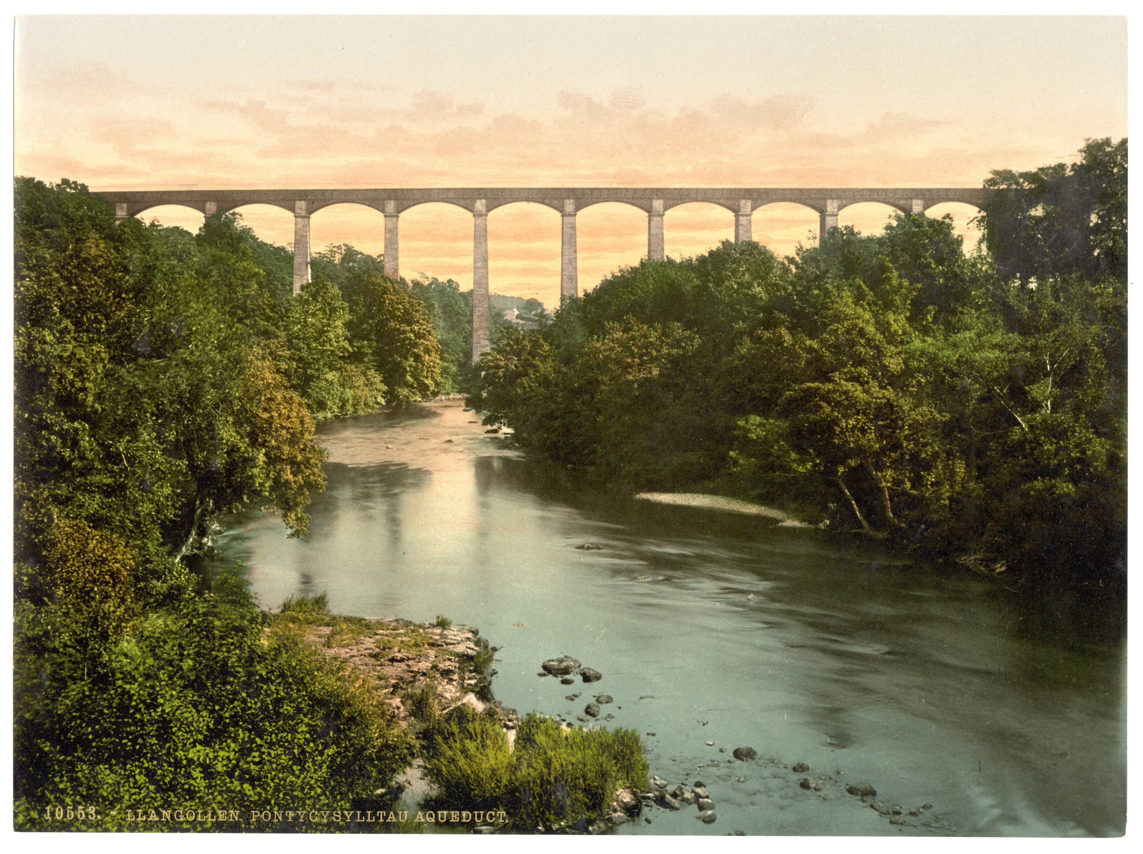 Title from the Detroit Publishing Co., catalogue J-foreign section. Detroit, Mich. : Detroit Photographic Company, 1905.; More information about the Photochrom Print Collection is available at Forms part of: Views of landscape and architecture in Wales in the Photochrom print collection.; Print no. "10553".